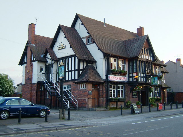 The Biggin Hall. Used to be an excellent pub, entry in The Good Beer Guide for many years. Sadly gone to the dogs in the last couple of years. Soon to be refurbished and converted to an eatery.